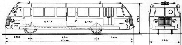 Drawing of railcar Renault ZO.